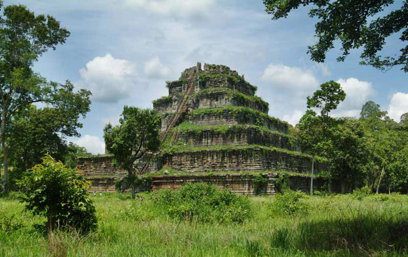 Prang (behind Prasat Thom), state temple of king Jayavarman IV (928-941) Koh Ker, Cambodia